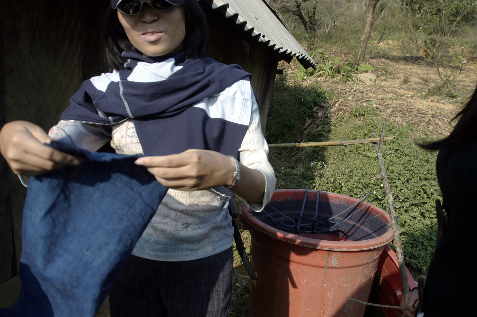 Diep showing us the cloth (in her hands) and the indigo dye (in the bucket)